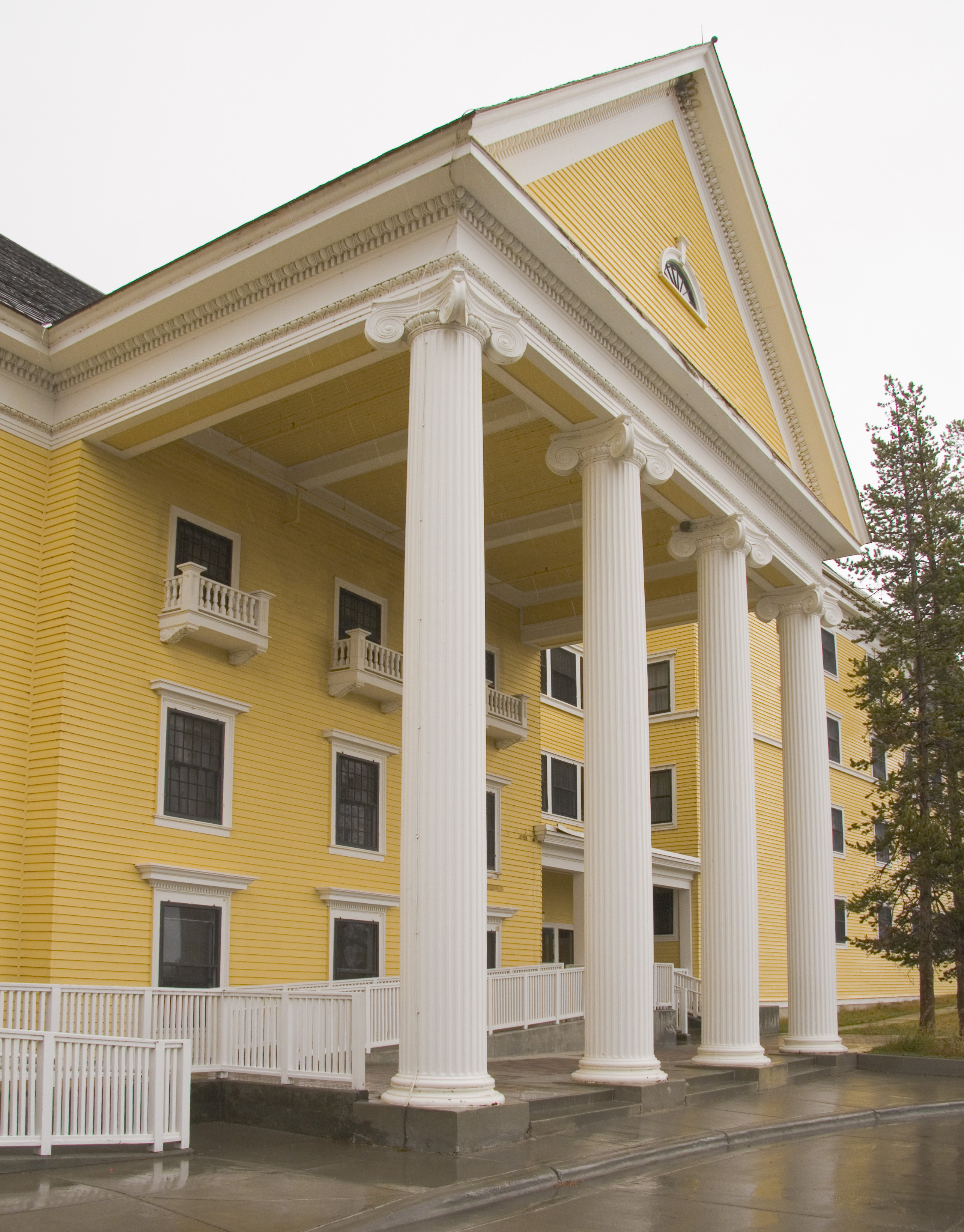 East portico, Lake Yellowstone Hotel, Yellowstone National Park, Wyoming, USA